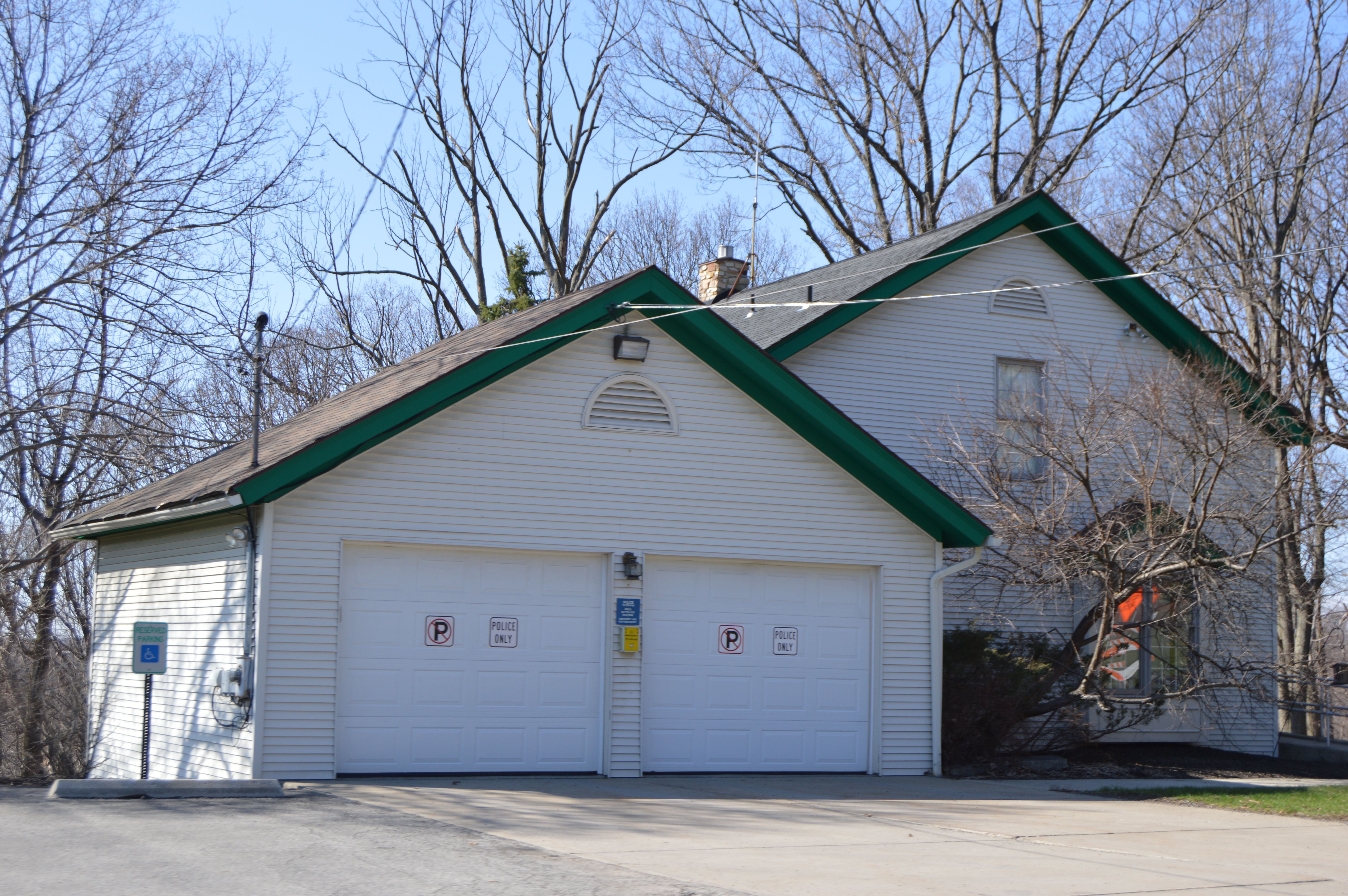 Front of the police station and municipal building for Bell Acres, Pennsylvania, United States, located at 1151 Camp Meeting Road.